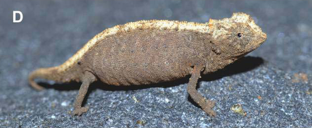 Female Brookesia confidens from Ankarana, Madagascar.